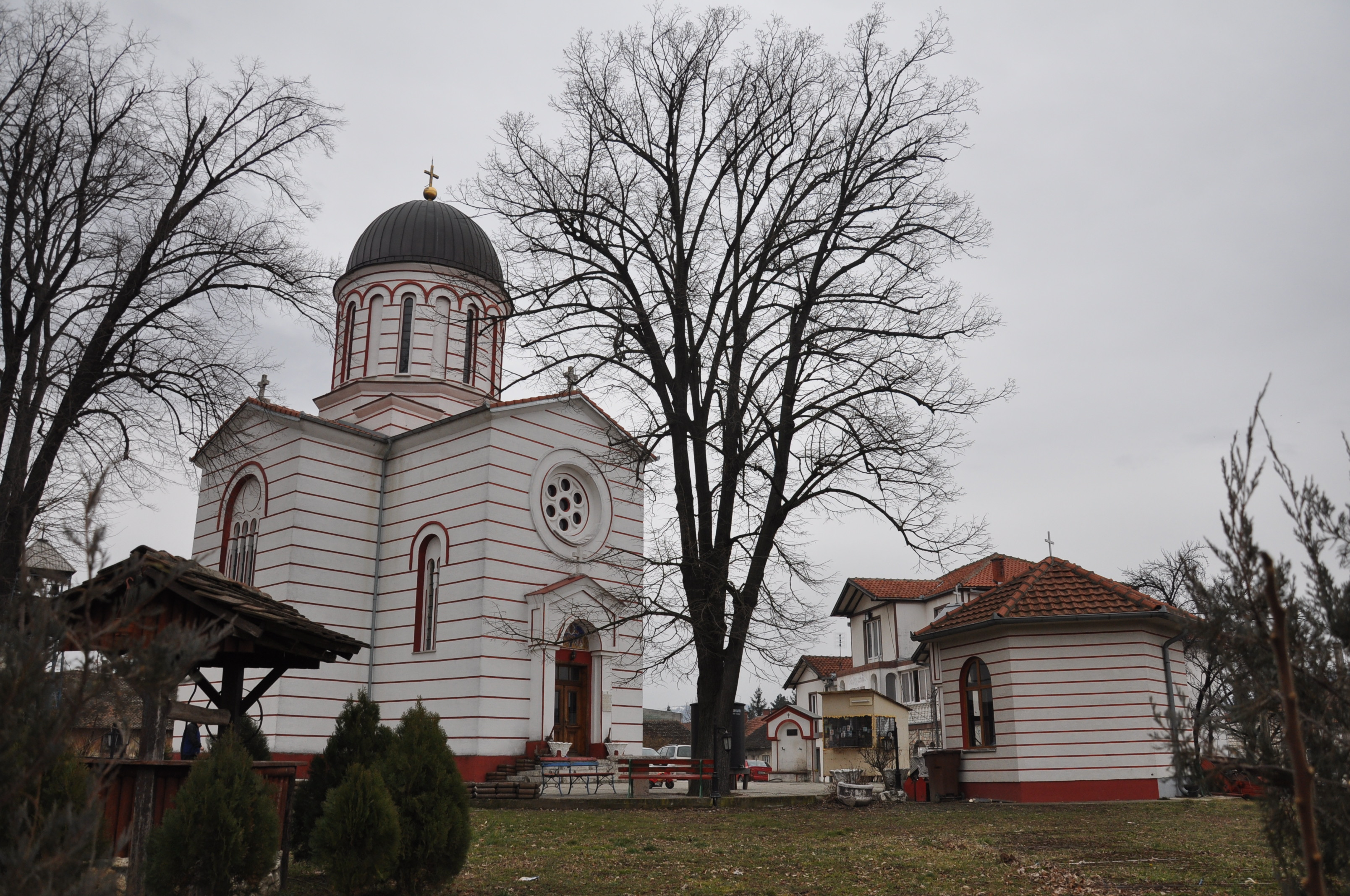 Zapis - Sacred Tree, Linden in Kučevo 1, municipality Kučevo, Serbia